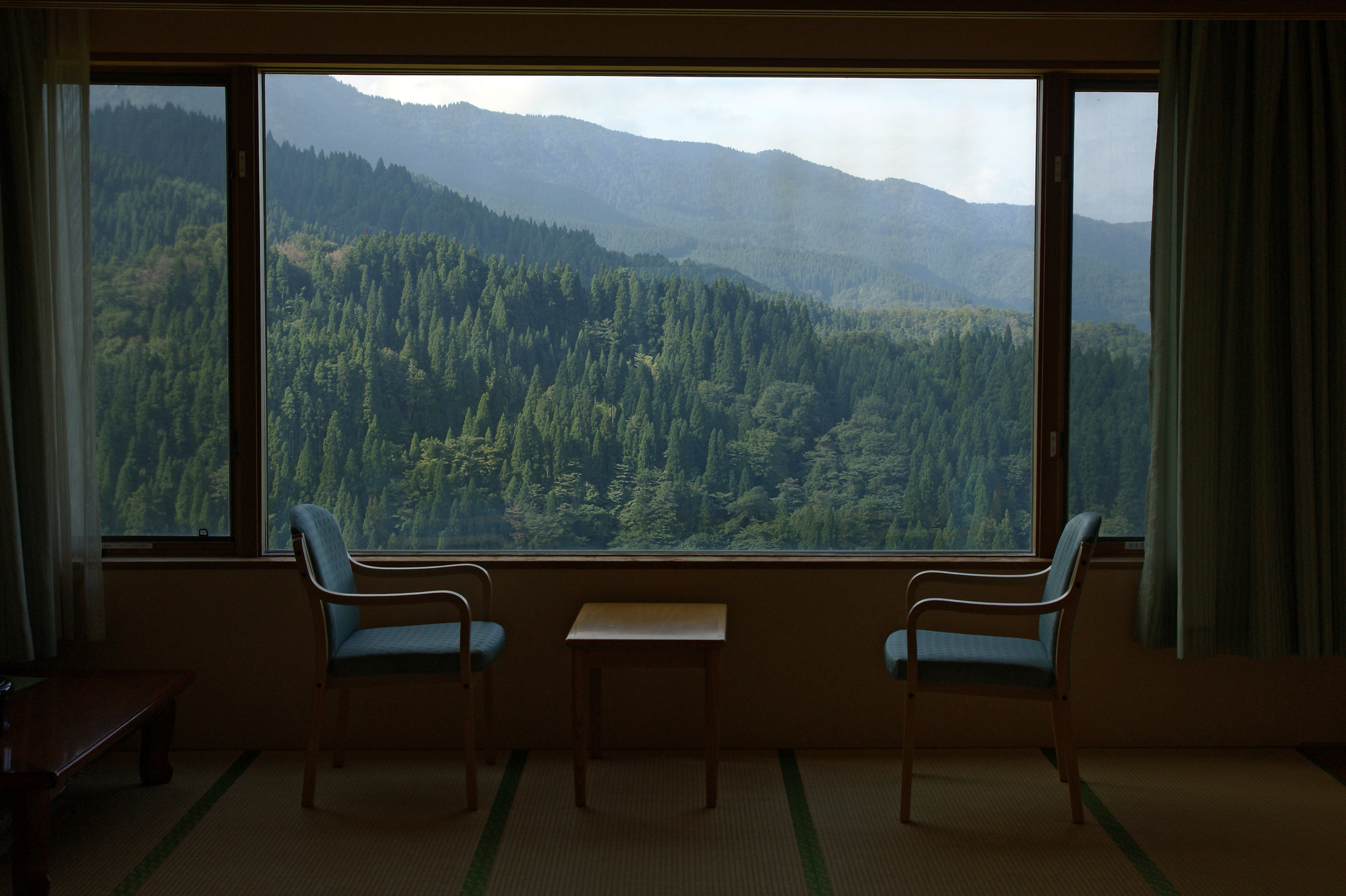 Hotel Hyota-kun in Wakasa, Tottori prefecture, Japan